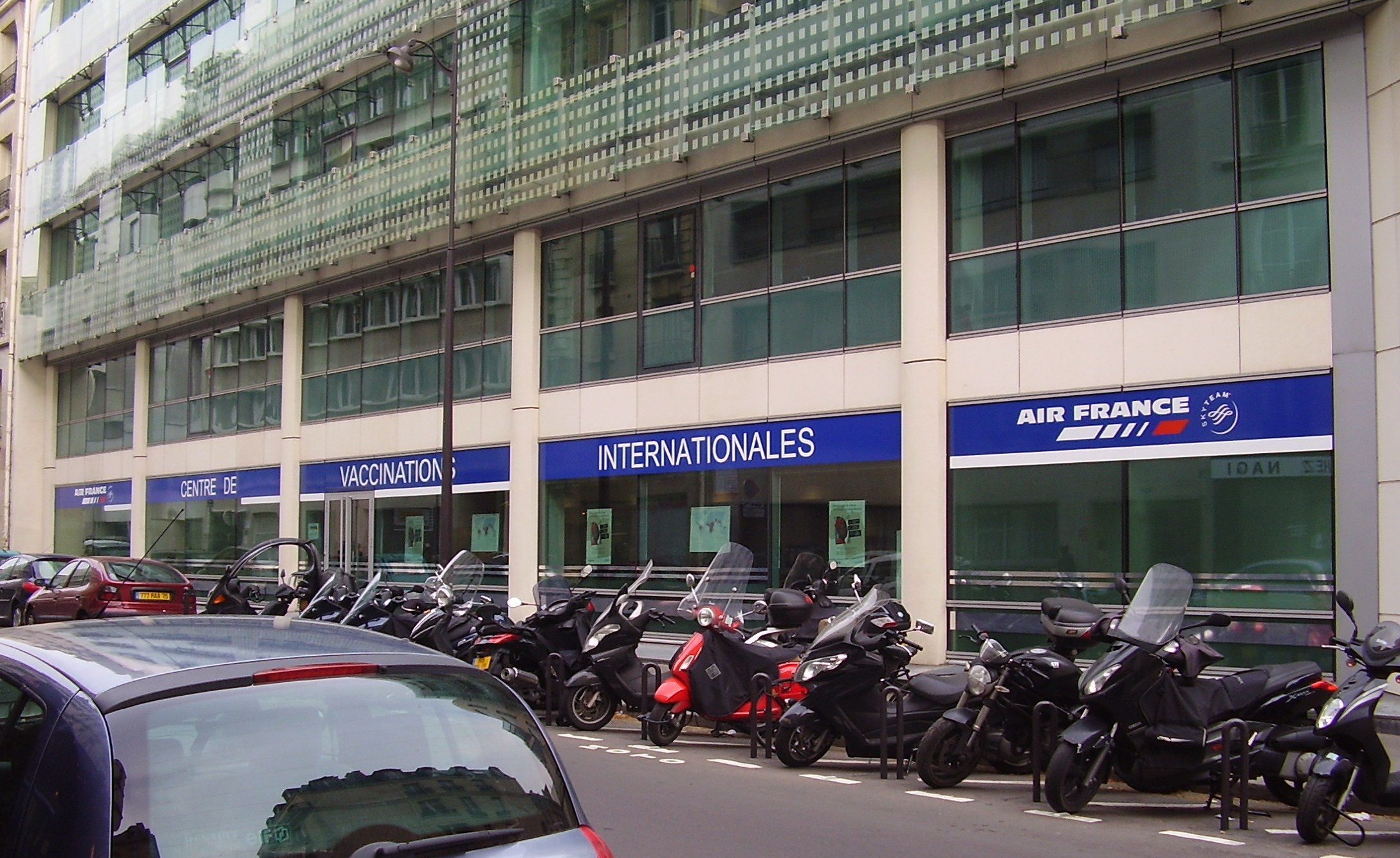 Air France Vaccinations Centre, 148 rue de l'université, 7th arrondissement of Paris